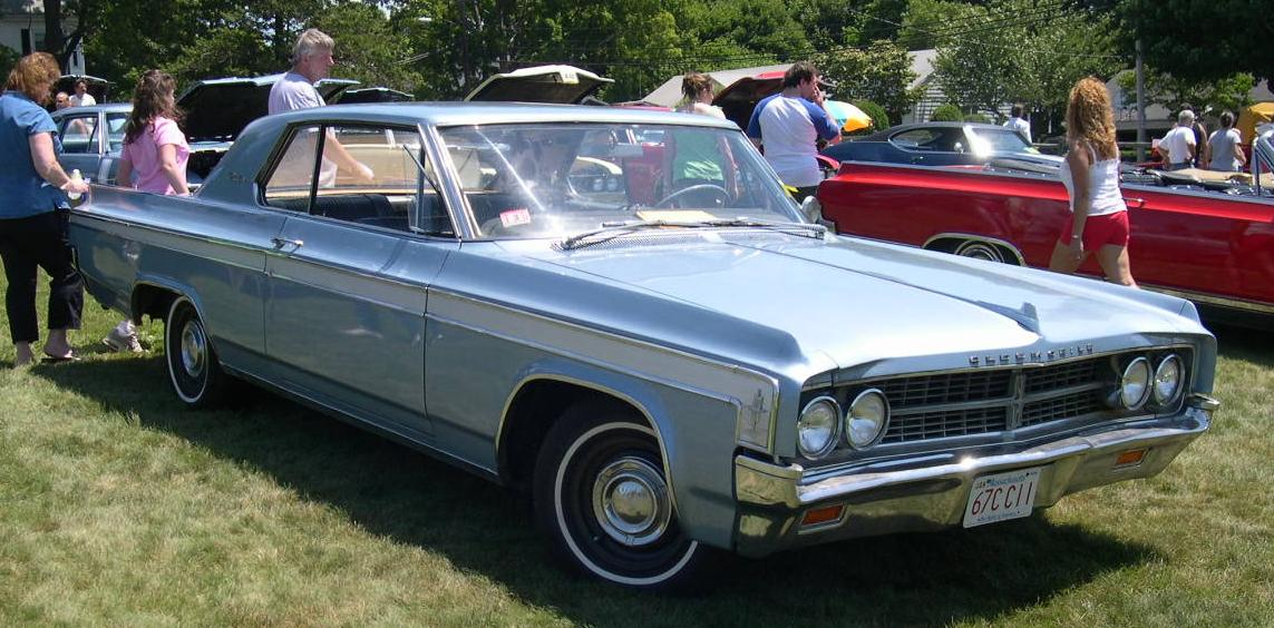 1963 Oldsmobile Starfire Holiday Coupe Source: Photographed at the Bay State Antique Automobile Club's July 10, 2005 show at the Endicott Estate in Dedham, MA by User:Sfoskett